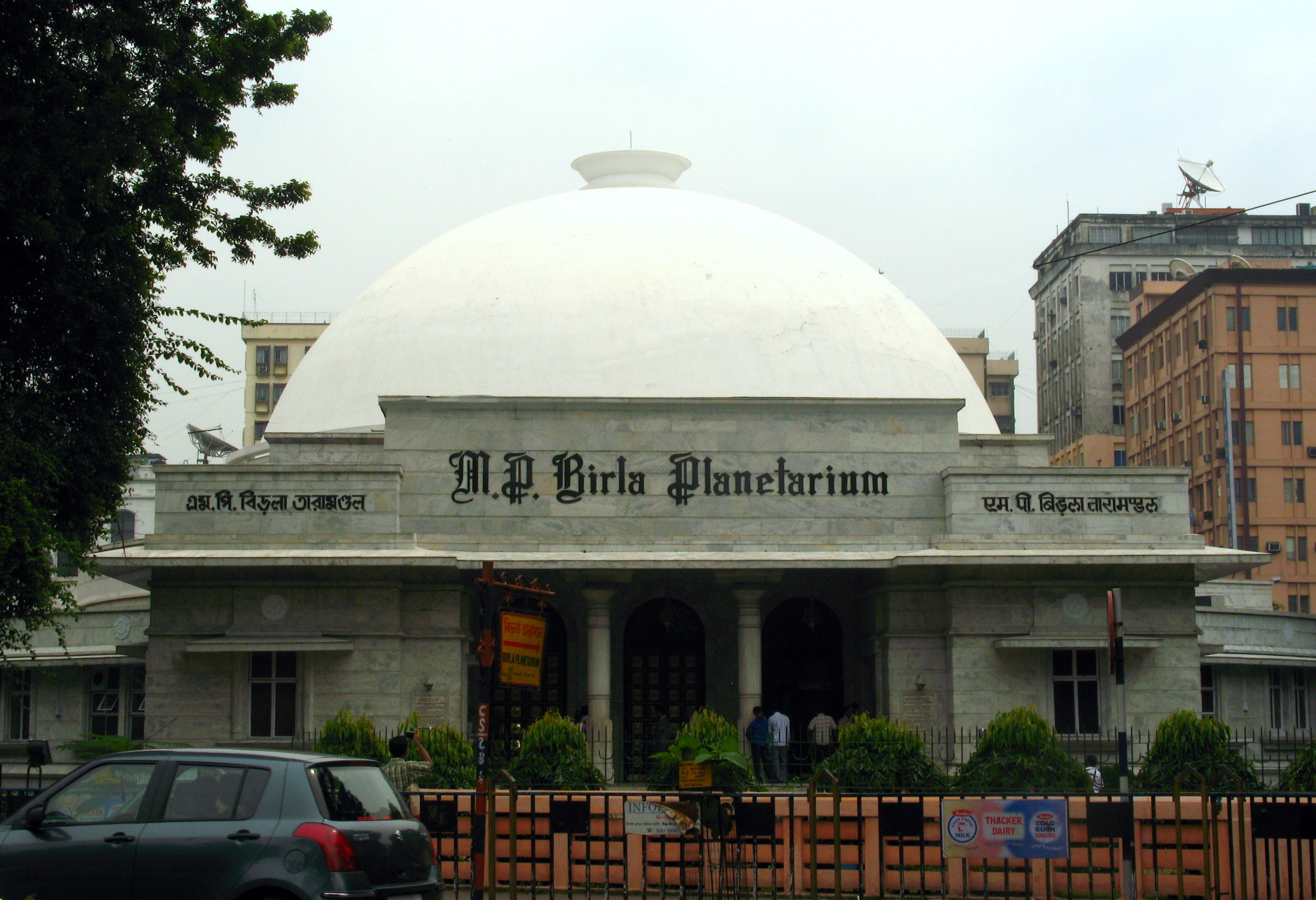 The largest planetarium in Asia. Started functioning in 1962 making it the first in Asia too.